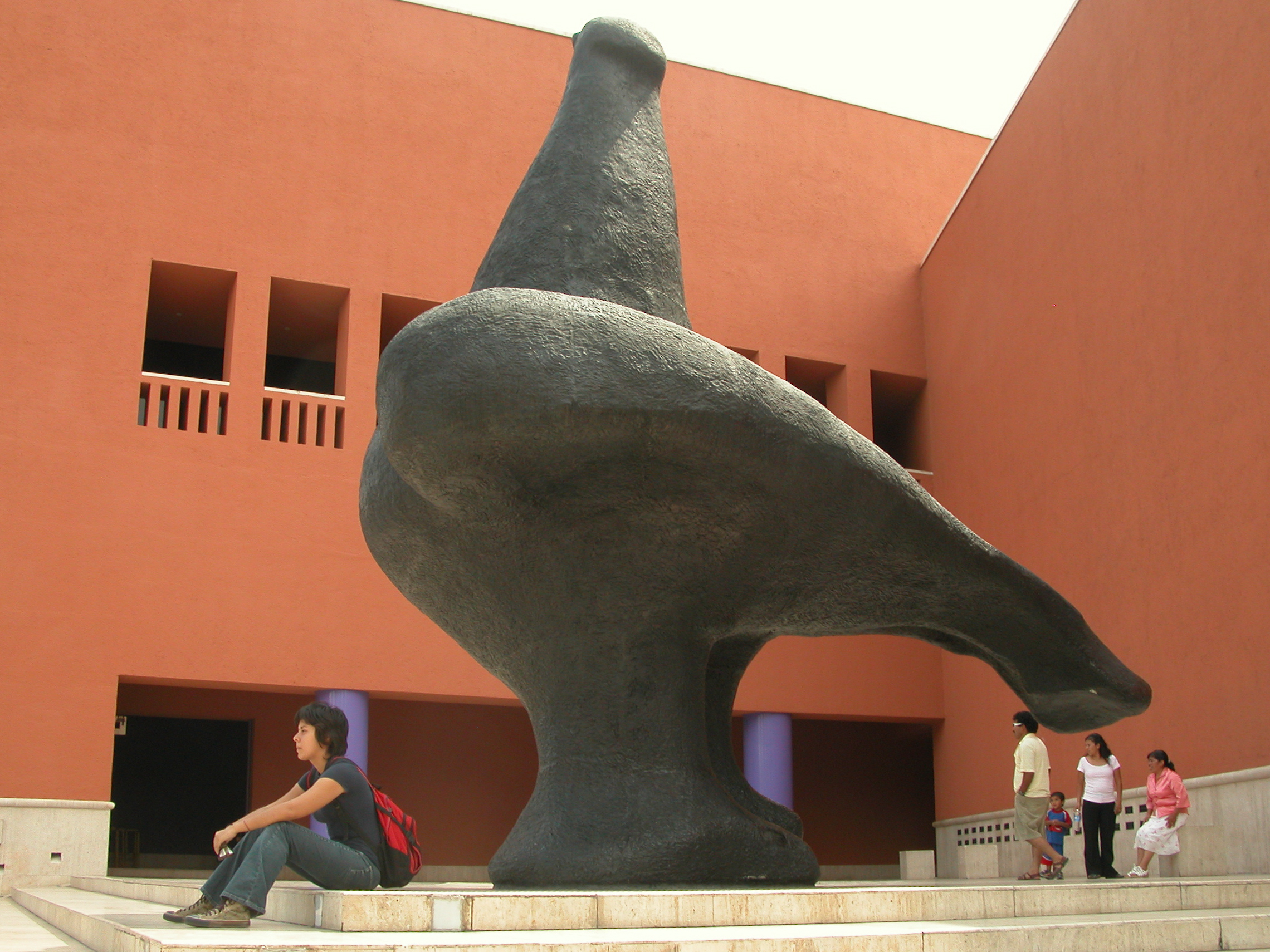 Sculpture of Juan Soriano winner of the National Fine Arts Award. "La Paloma" is a bronze sculpture of 8818.49 pounds and 19.68 ft. It is placed at the Contemporary Art Museum MARCO in Monterrey.